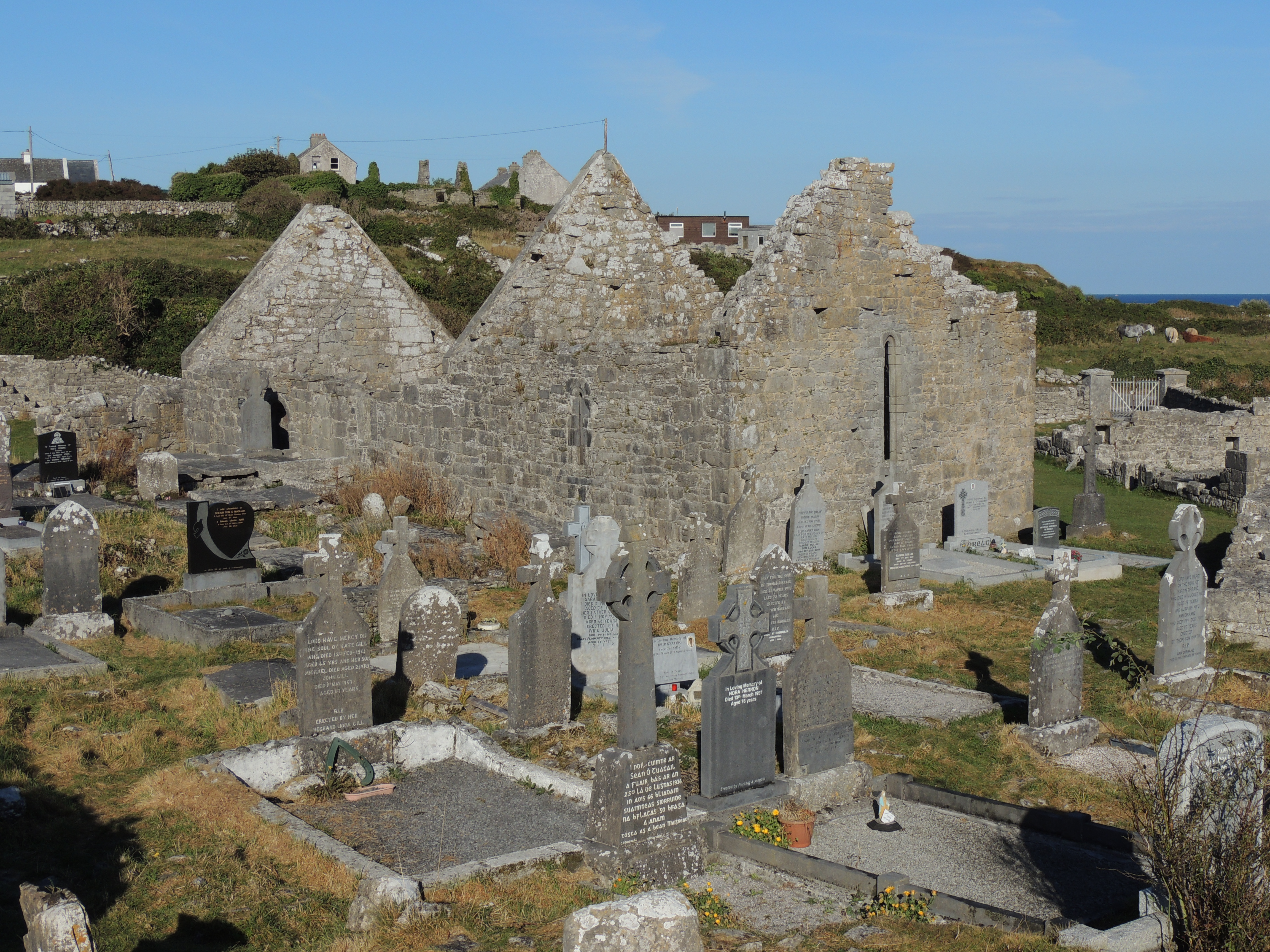 Templebrecan